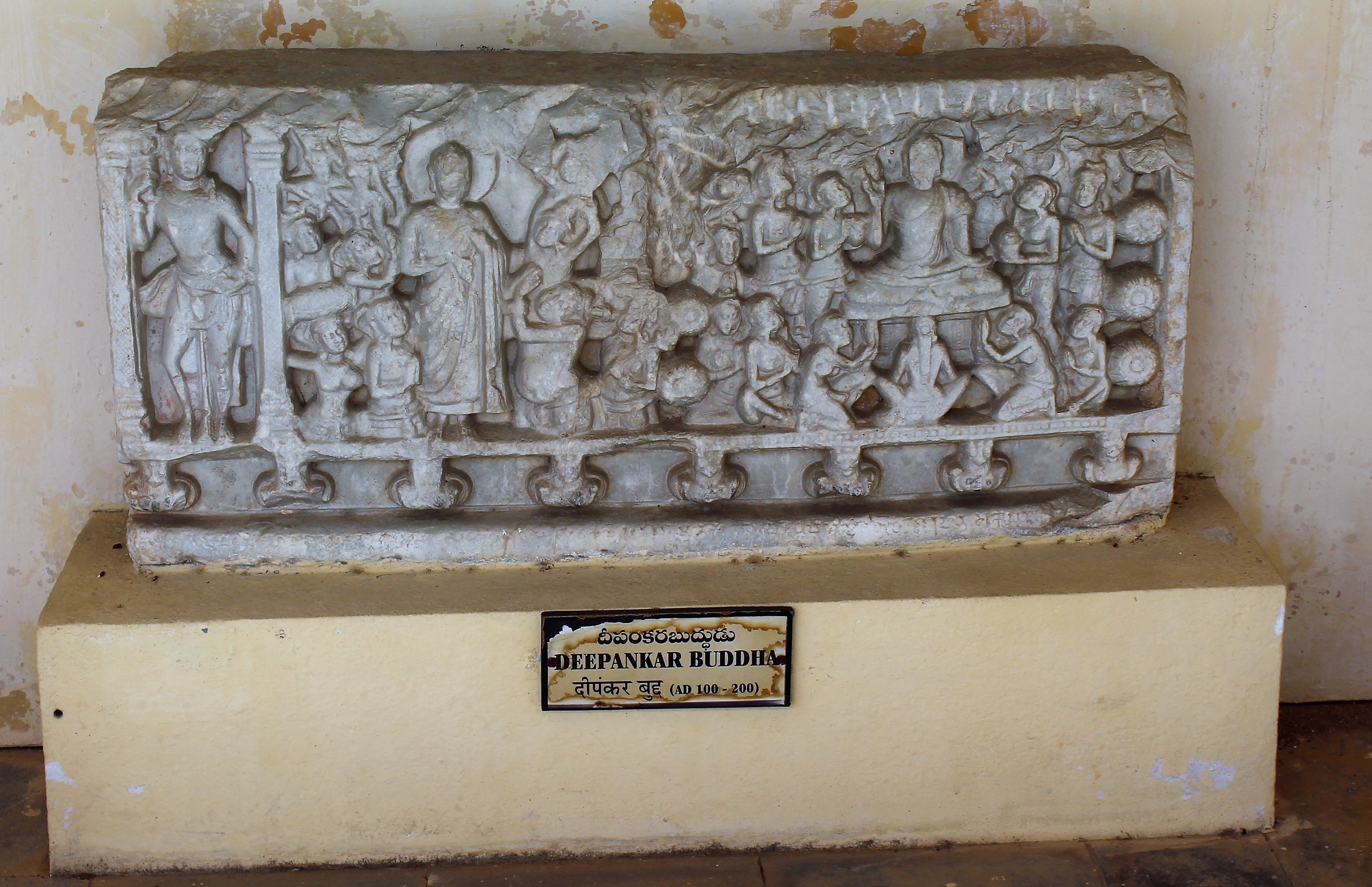 The Amaravati Archaeological Museum is a museum located in Amaravati, a village in Guntur district of the Indian state of Andhra Pradesh.